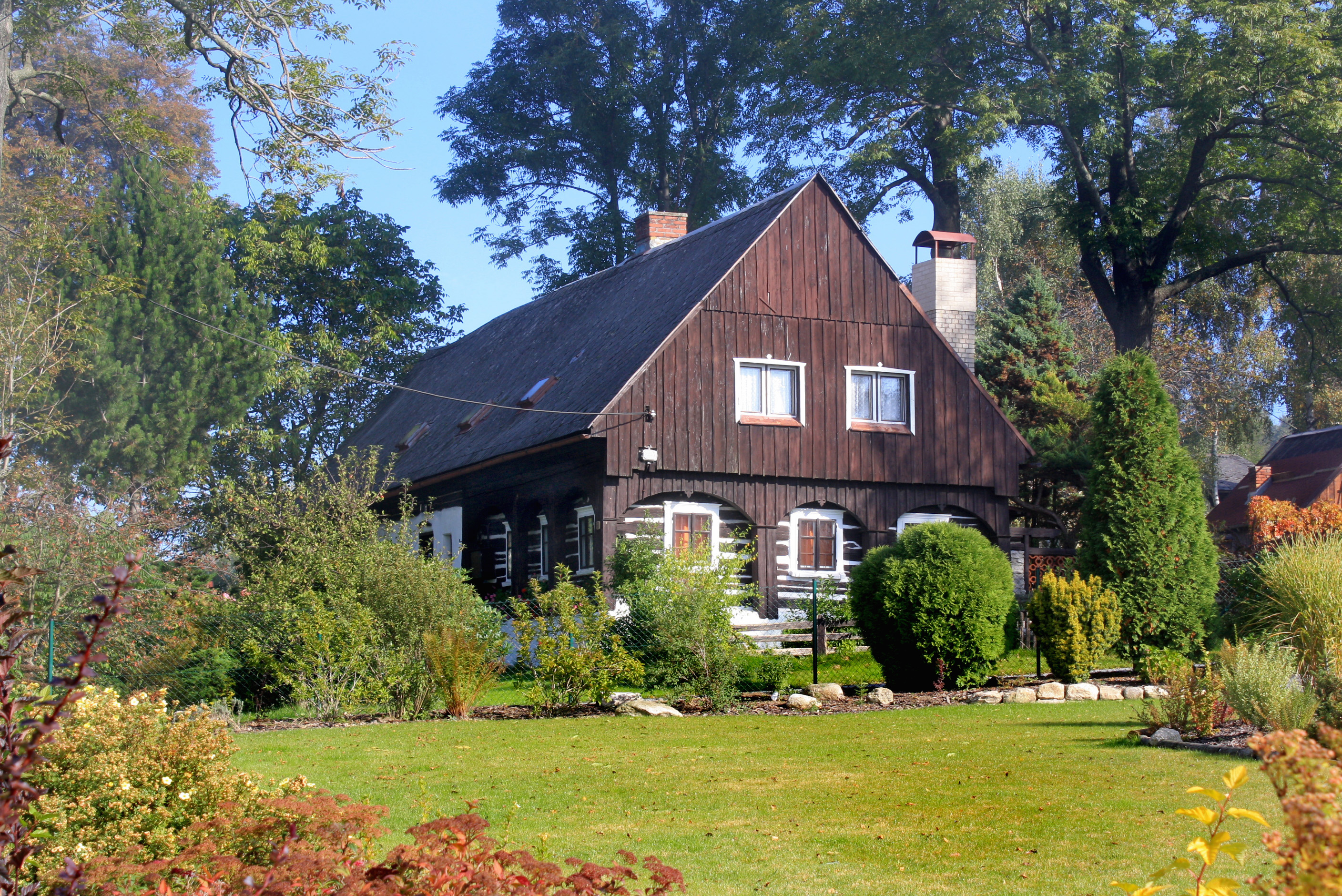 Middle part of Albrechtice u Frýdlantu, part of Frýdlant, Czech Republic